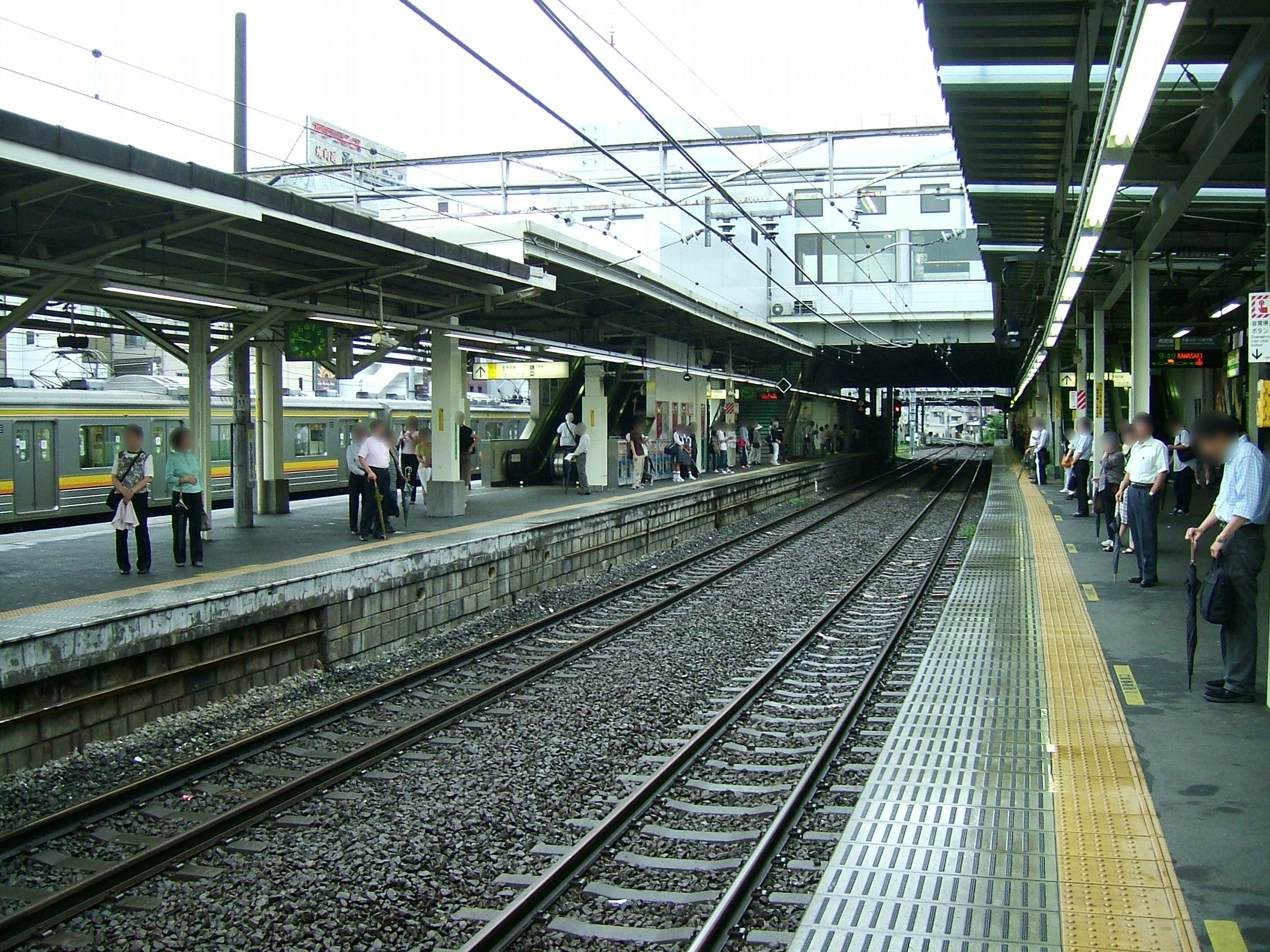 Musashi-Mizonokuchi Station platform (East Japan Railway Nambu Line)